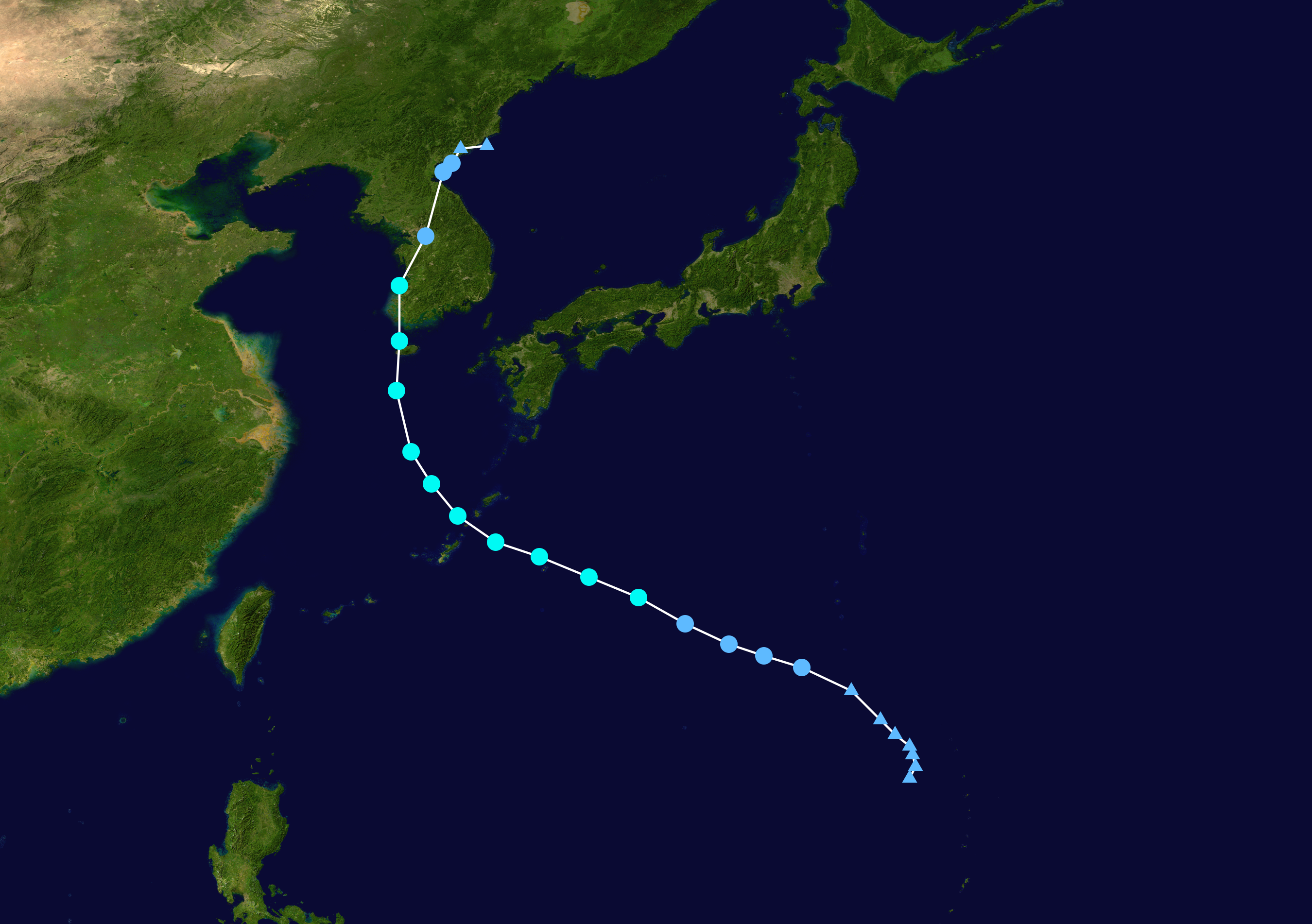 Track map of Tropical Storm Khanun of the 2012 Pacific typhoon season. The points show the location of the storm at 6-hour intervals. The colour represents the storm's maximum sustained wind speeds as classified in the Saffir–Simpson scale (see below), and the shape of the data points represent the nature of the storm, according to the legend below. Saffir–Simpson scale Tropical depression≤38 mph≤62 km/h Category 3111–129 mph178–208 km/h Tropical storm39–73 mph63–118 km/h Category 4130–156 mph209–251 km/h Category 174–95 mph119–153 km/h Category 5≥157 mph≥252 km/h Category 296–110 mph154–177 km/h Unknown Storm type Tropical cyclone Subtropical cyclone Extratropical cyclone / Remnant low / Tropical disturbance / Monsoon depression